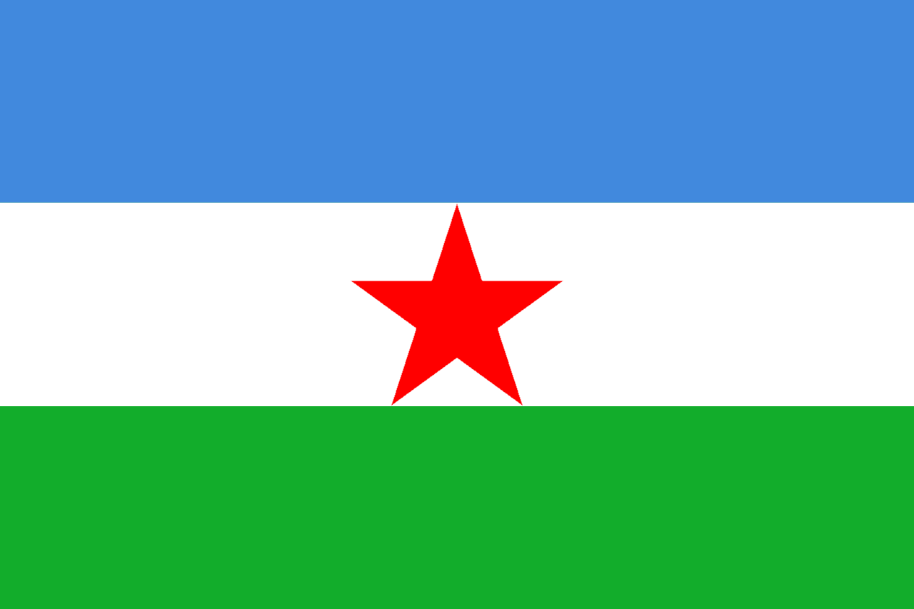 Flag of the Afar Liberation Front (ALF).